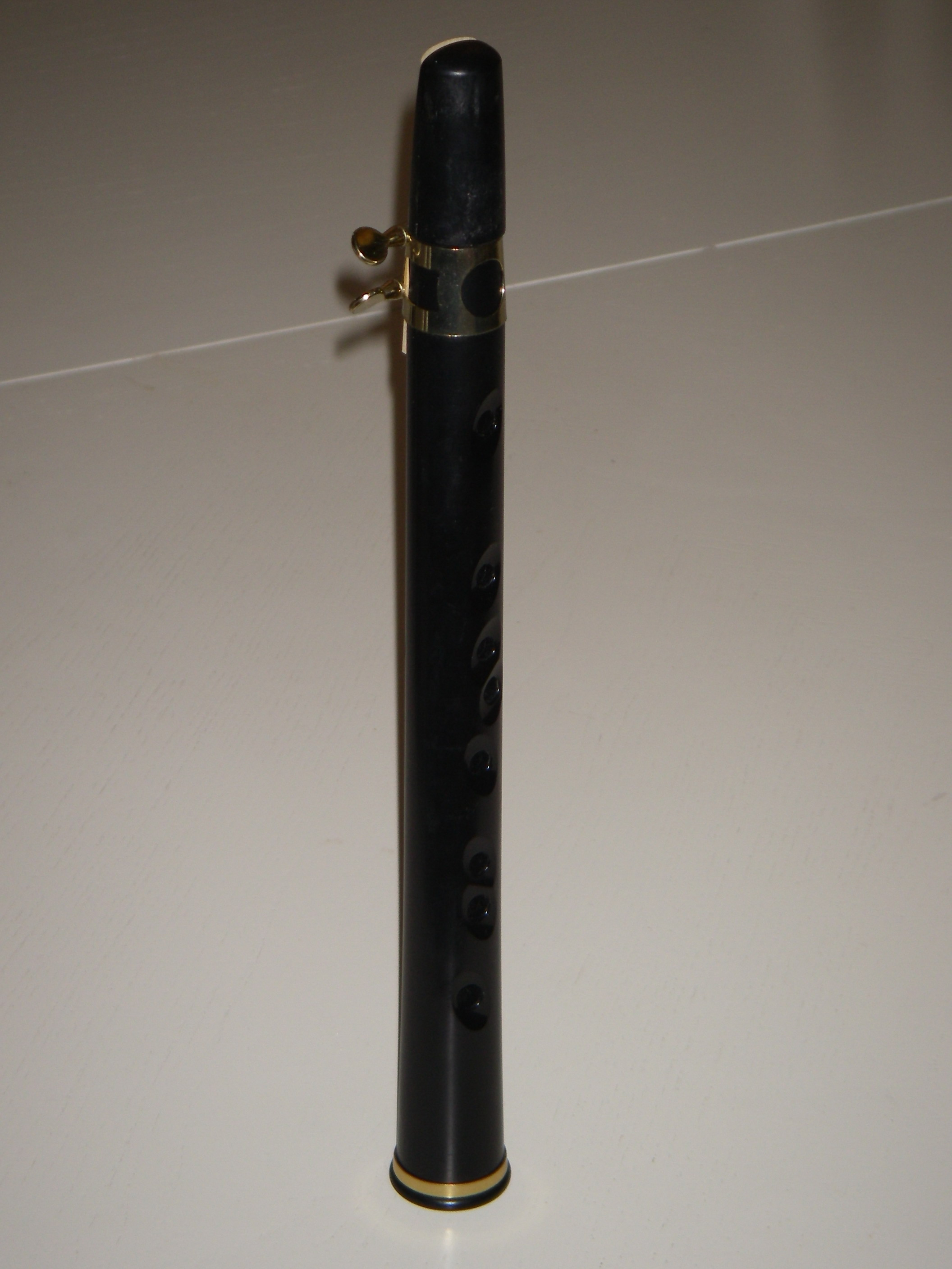 xaphoon, pocket sax